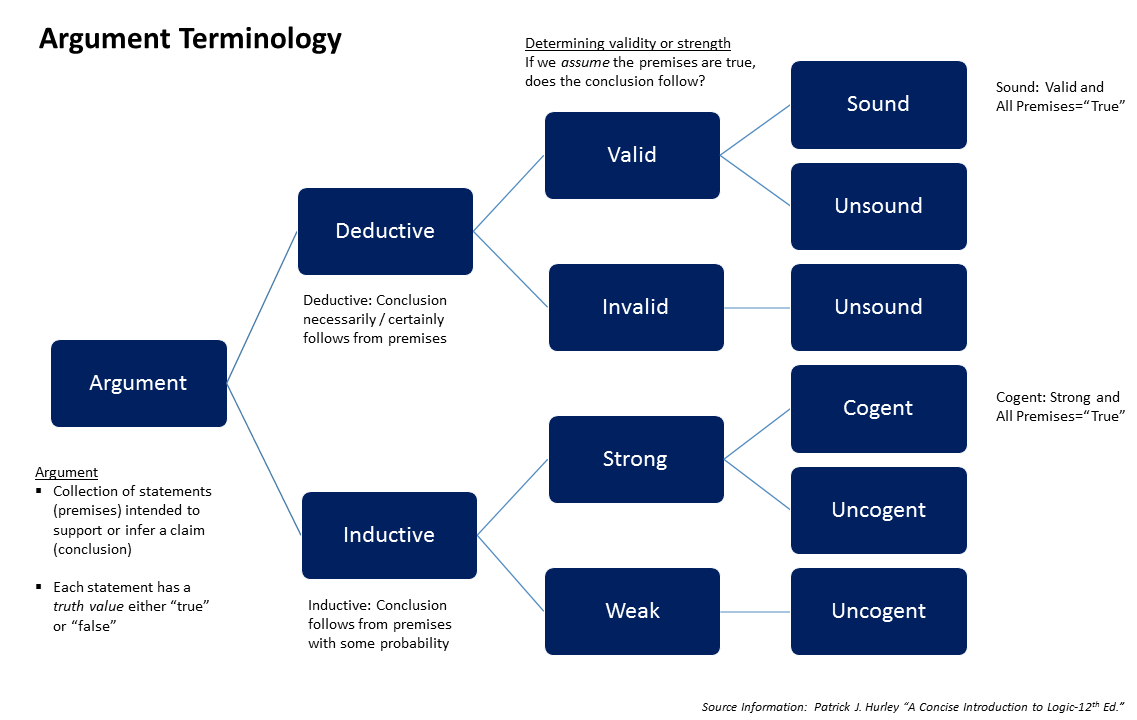 Argument terminology used in logic